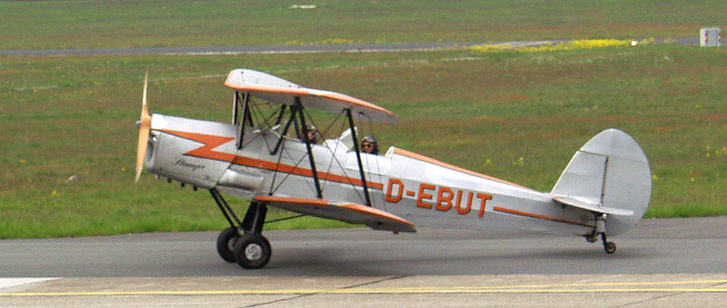 Stampe & Vertongen SV-4C (D-EBUT) at Airport Niederrhein